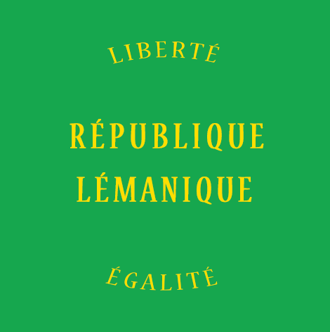 Lemanic Republic's Flag (1798)